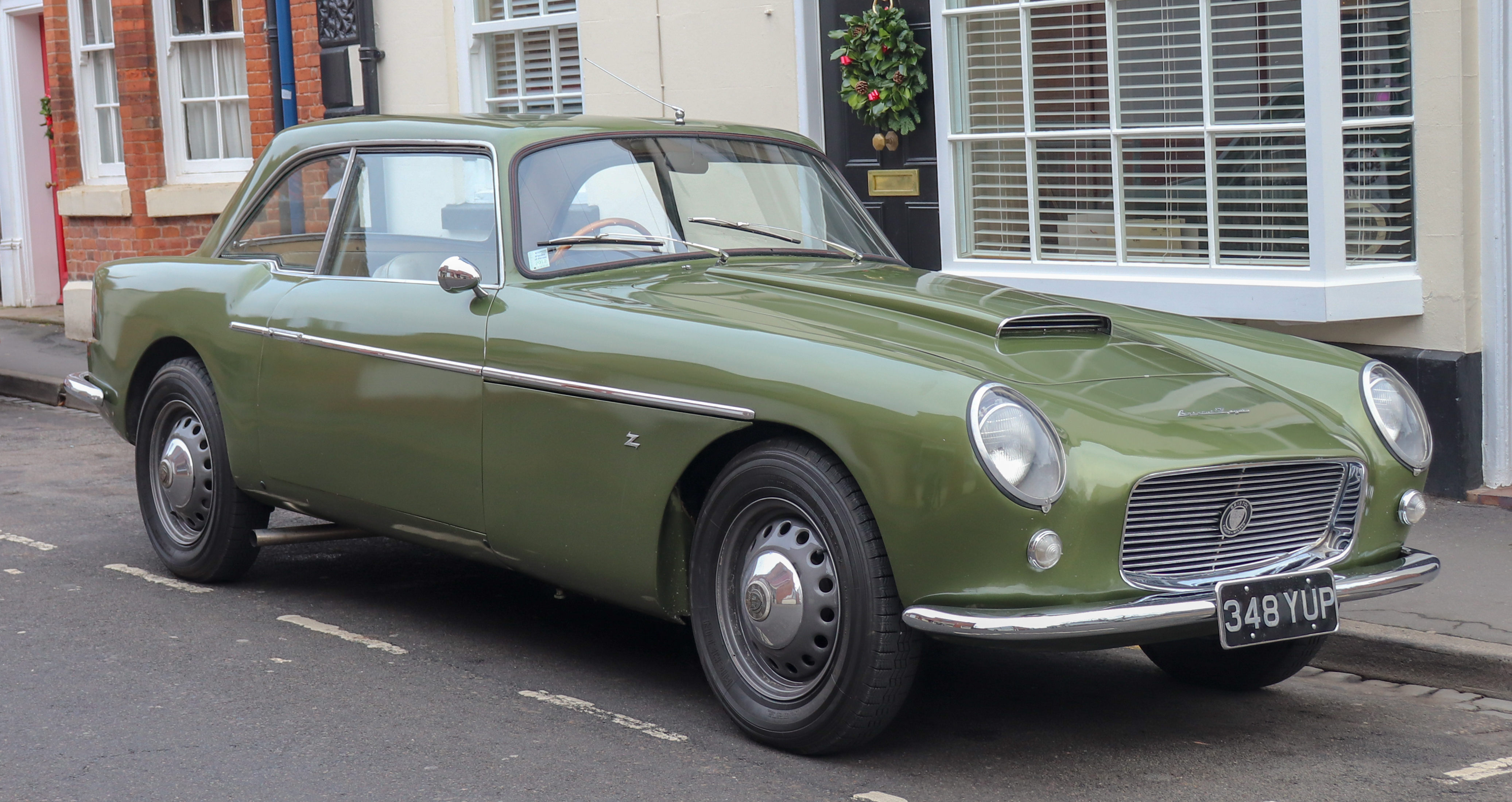 1959 Bristol 406 Zagato 2.2 Front Taken in Warwick